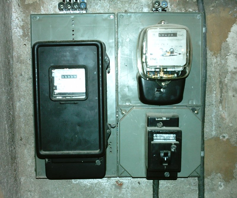 3-phase electrical meter italian old type